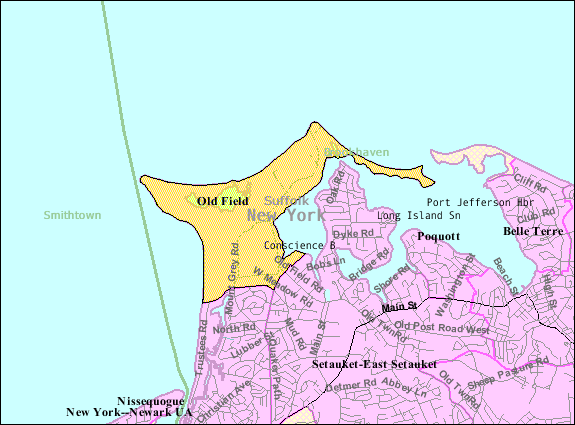 U.S. Census 2000 reference map for Old Field